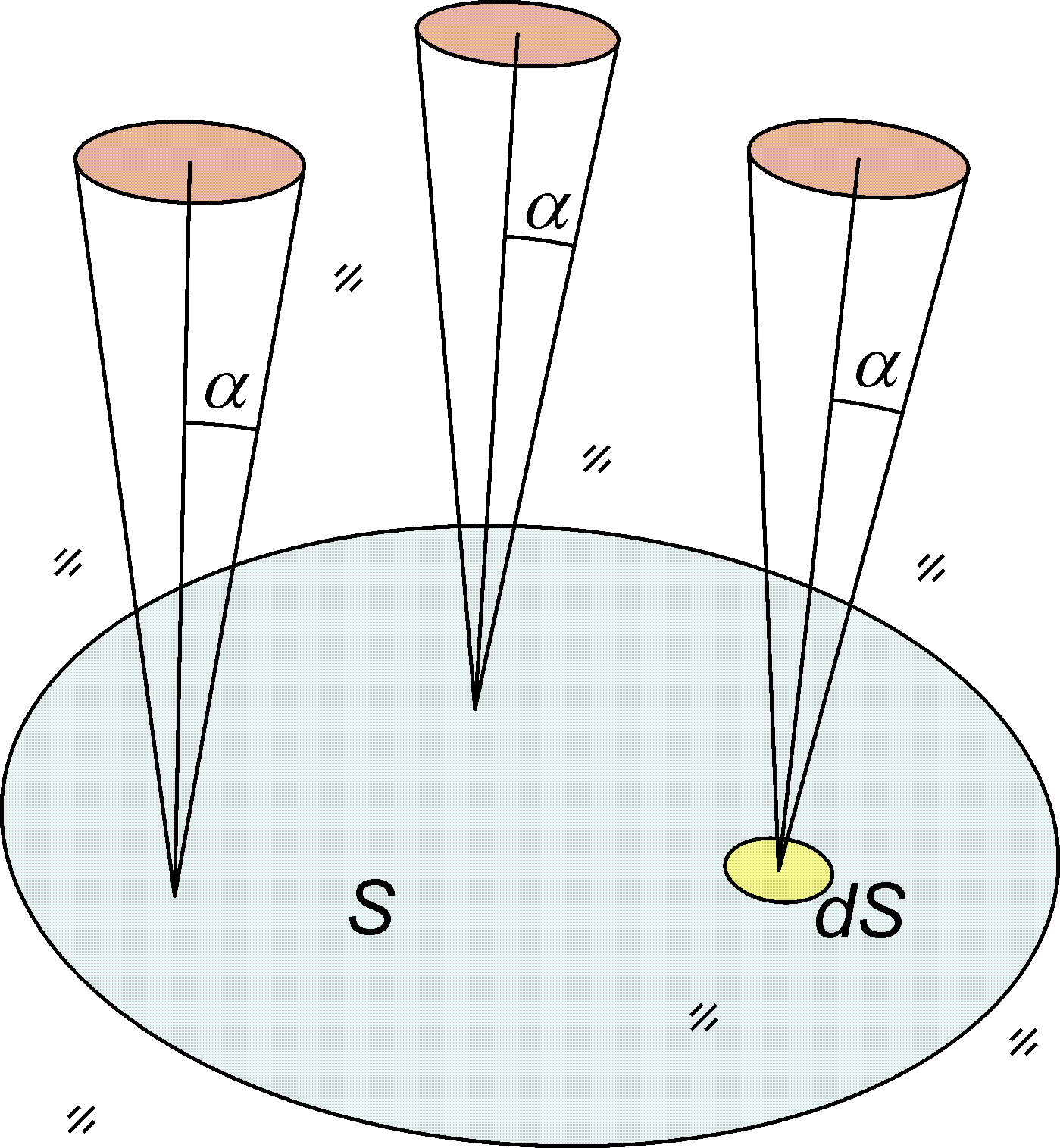 A figure illustrating the etendue calculation for a large solid angle.